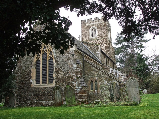 SS Peter & Paul parish church, Flitwick, Bedfordshire, seen from the northeast